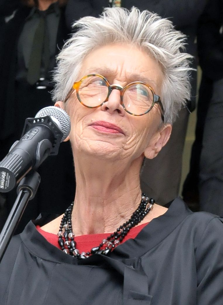 28-11-2014 Exhibition in Zachęta – Narodowa Galeria Sztuki POSTĘP I HIGIENA. PROGRESS AND HYGIENE